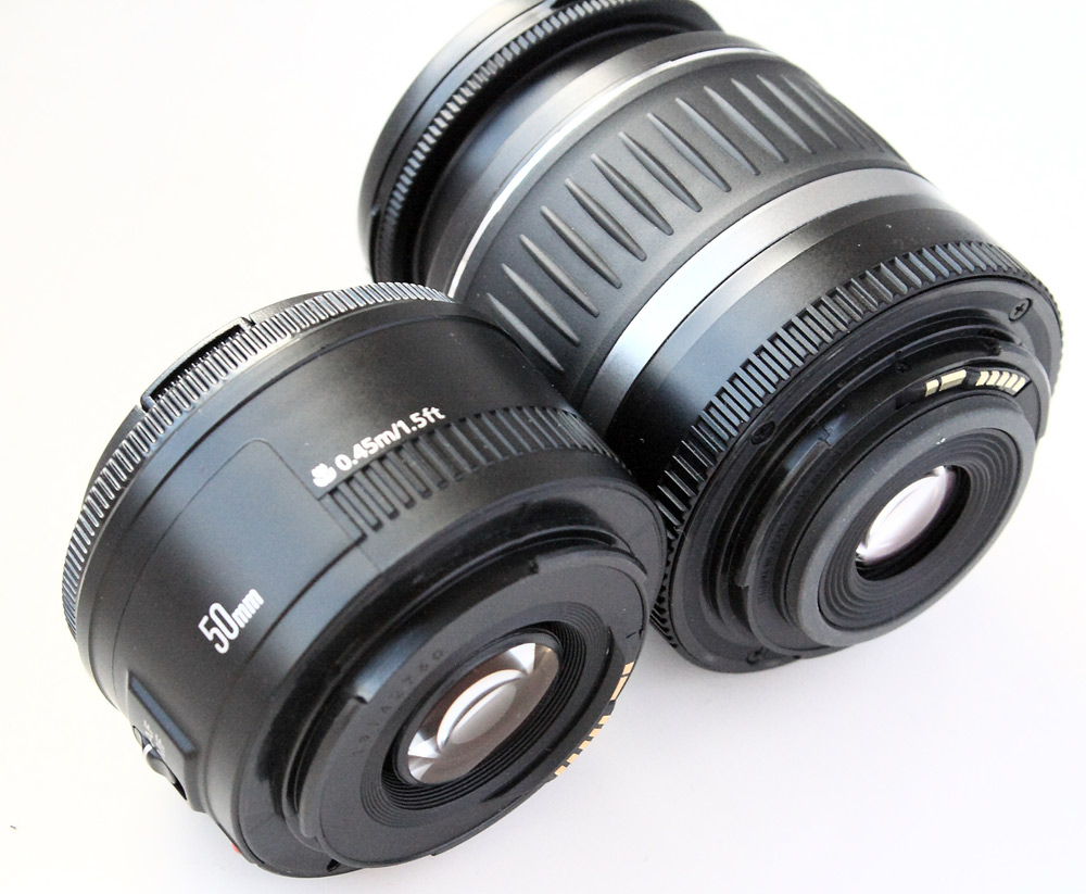 Canon EF 50 mm f/1.8(left) and Canon EF-S 18-55 mm f/3.5-5.6 (right) lens mounts